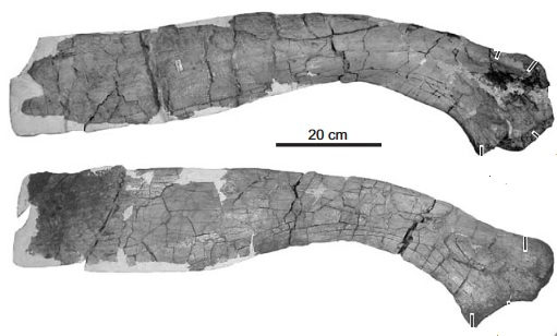 Right scapula in lateral view (above) and left scapula in medial view of Olorotitan arharensis Godefroit, Bolotsky & Alifanov, 2003. Upper Cretaceous of Kundur, Russia.